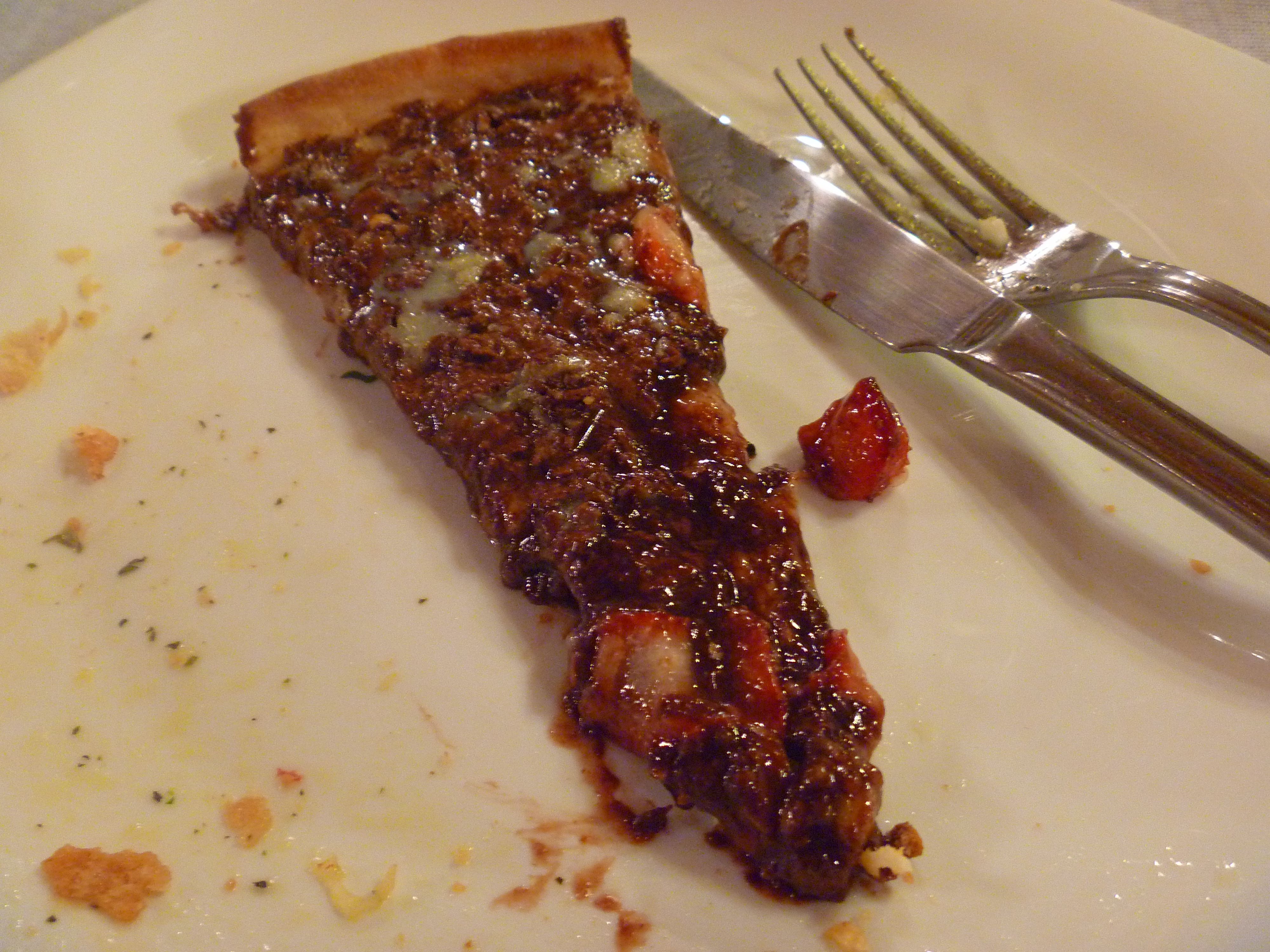 Pizza made using chocolate in Brazil